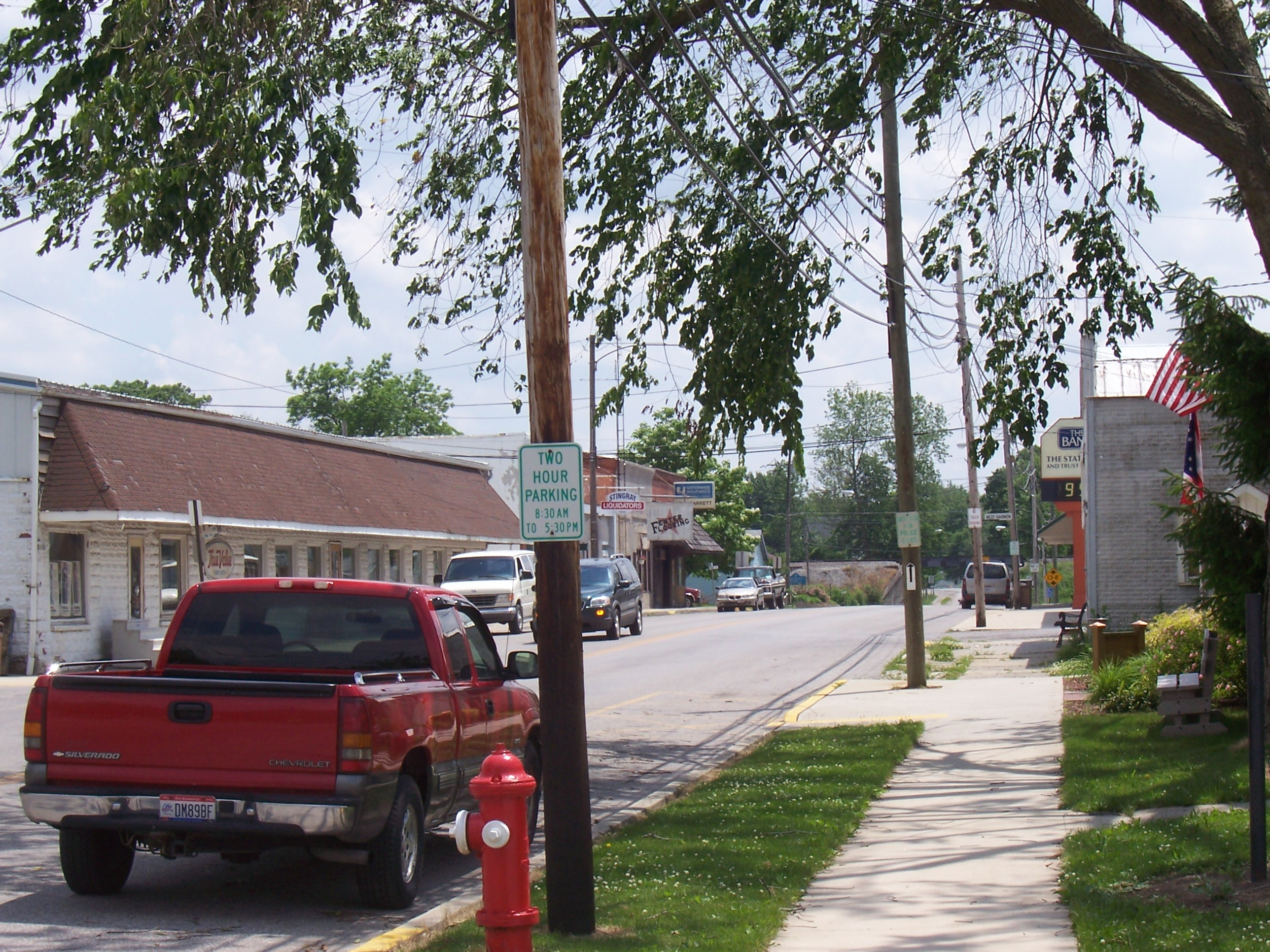 author's own picture, no copyright